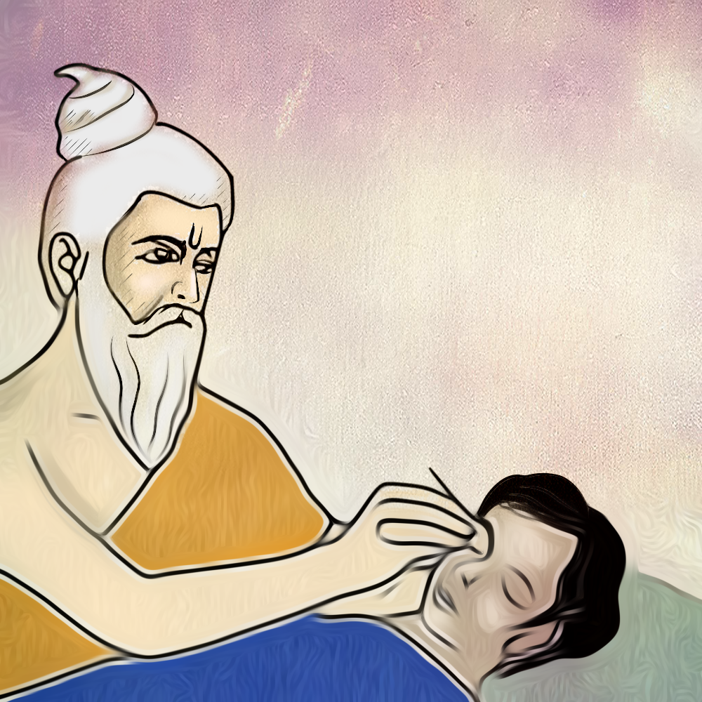 Treatment of Vaidyabrahmin.